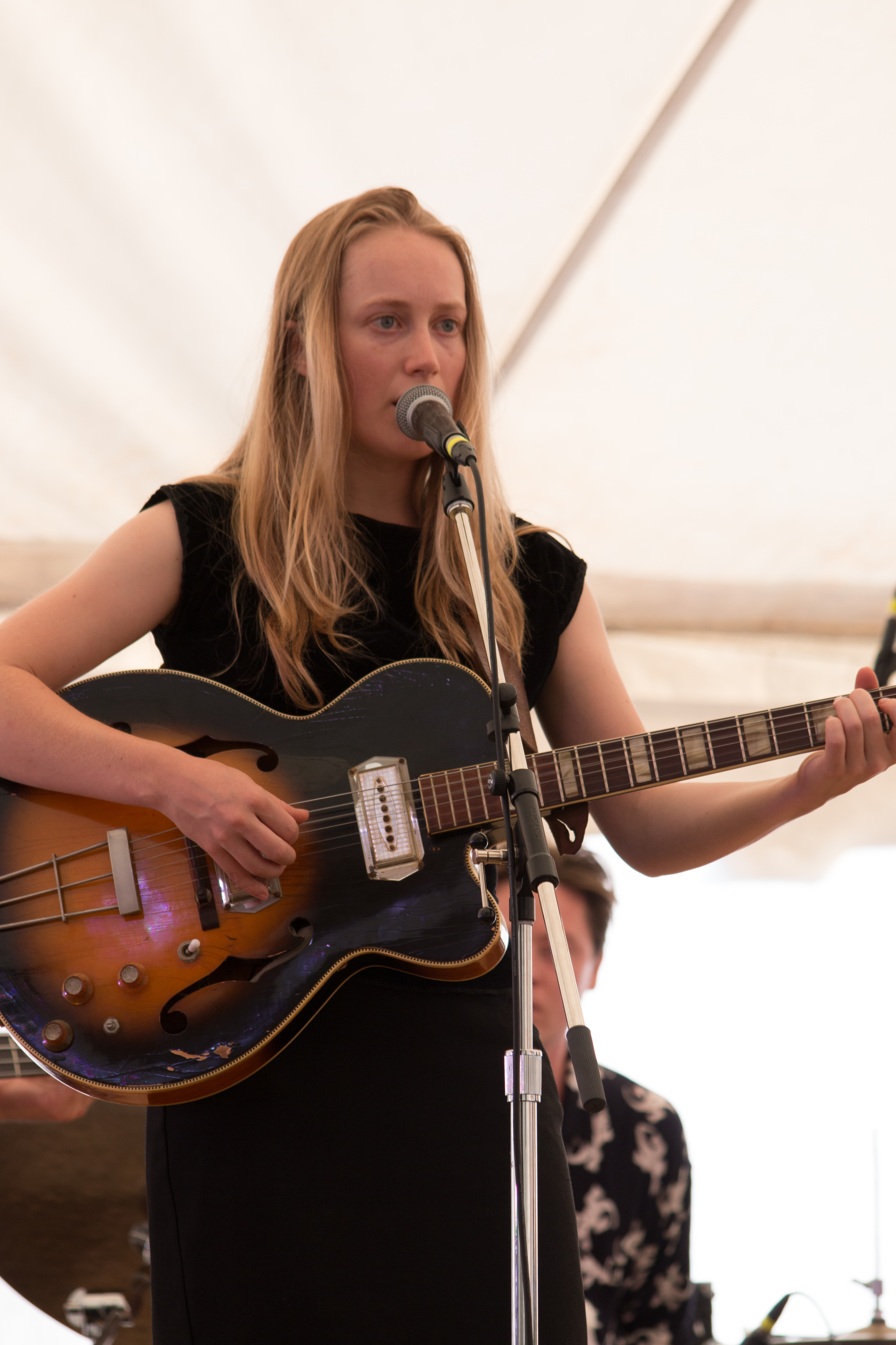 Tamara Lindeman, as part of the The Weather Station, performing at the 2015 Hillside Festival in Guelph, ON